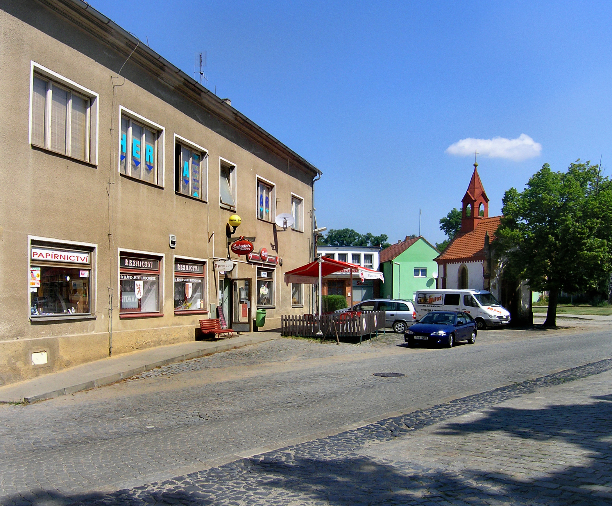 Small chapel in Mšené-lázně village, Czech Republic